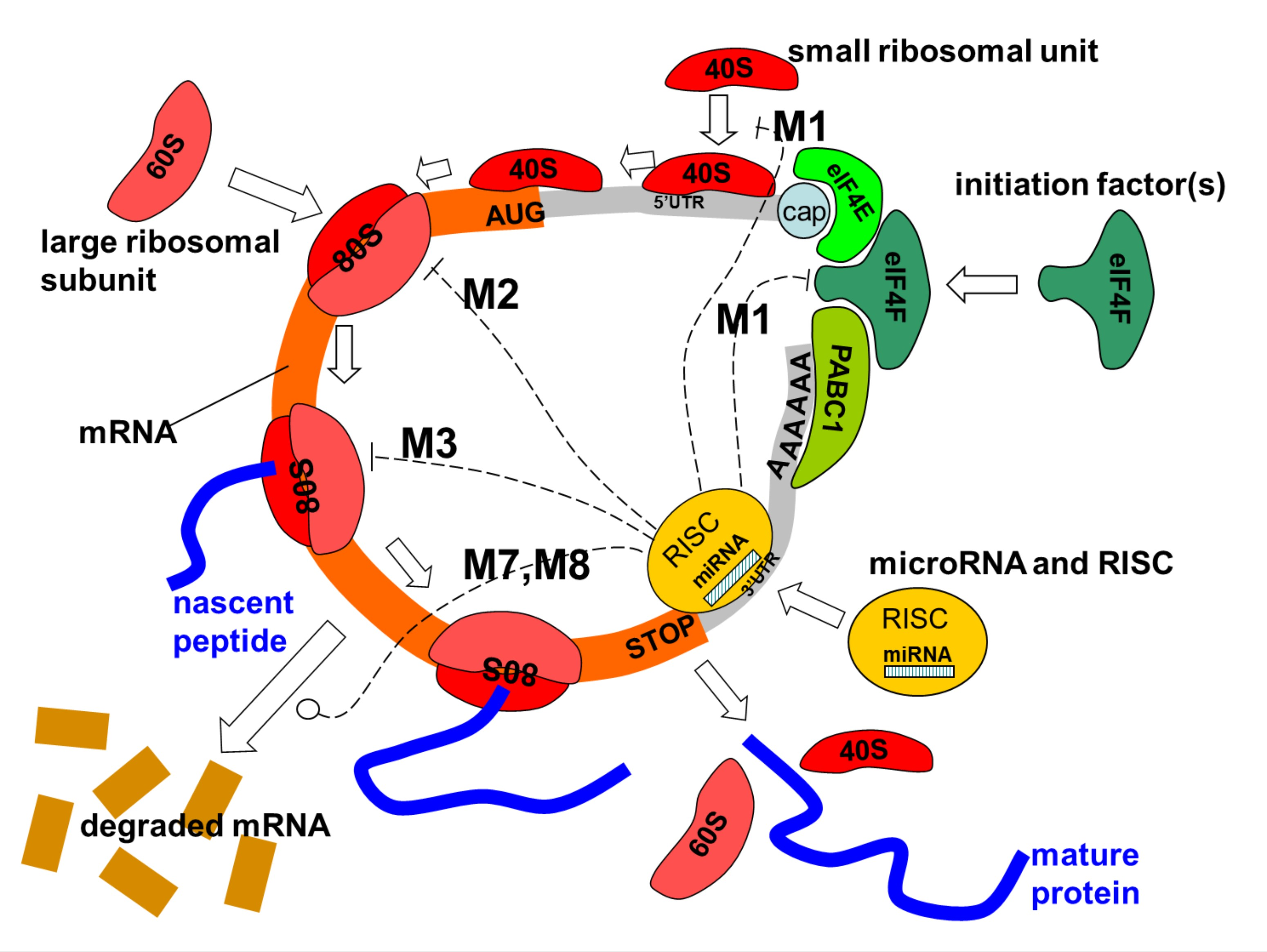 Interaction of microRNA with protein translation process. Several (from nine documented) mechanisms of translation repression are shown: M1) on the initiation process, preventing assembling of the initiation complex or recruiting the 40S ribosomal subunit; M2) on the ribosome assembly; M3) on the translation process; M7, M8) on the degradation of mRNA. There exist other mechanisms of microRNA action on protein translation (transcriptional, transport to P-bodies, ribosome drop-off, co-translational protein degradation and others) that are not visualized here. Here, 40S and 60S are light and heavy components of the ribosome, 80S is the assembled ribosome bound to mRNA, eIF4F is an translation initiation factor, PABC1 is the Poly-A binding protein, and "cap" is the mRNA cap structure needed for mRNA circularization (which can be the normal m7G-cap or artificial modified A-cap). The initiation of mRNA can proceed in a cap-independent manner, through recruiting 40S to IRES (Internal Ribosome Entry Site) located in 5’UTR region. The actual work of RNA silencing is performed by RISC (RNA-induced silencing complex) in which the main catalytic subunit is one of the Argonaute proteins (AGO), and miRNA serves as a template for recognizing specific mRNA sequences.